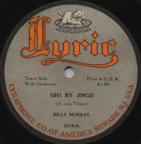 Lyric Records label, 1919. "Oh By Jingo" sung by Billy Murray.